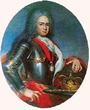 Painting of João V as King of Portugal by an unknown artist